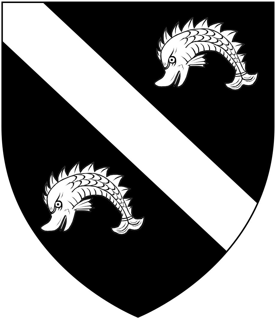 Arms of French of Sharpham, Devon: Sable, a bend between two dolphins hauriant argent (Pole, Sir William (d.1635), Collections Towards a Description of the County of Devon, Sir John-William de la Pole (ed.), London, 1791, p.484)